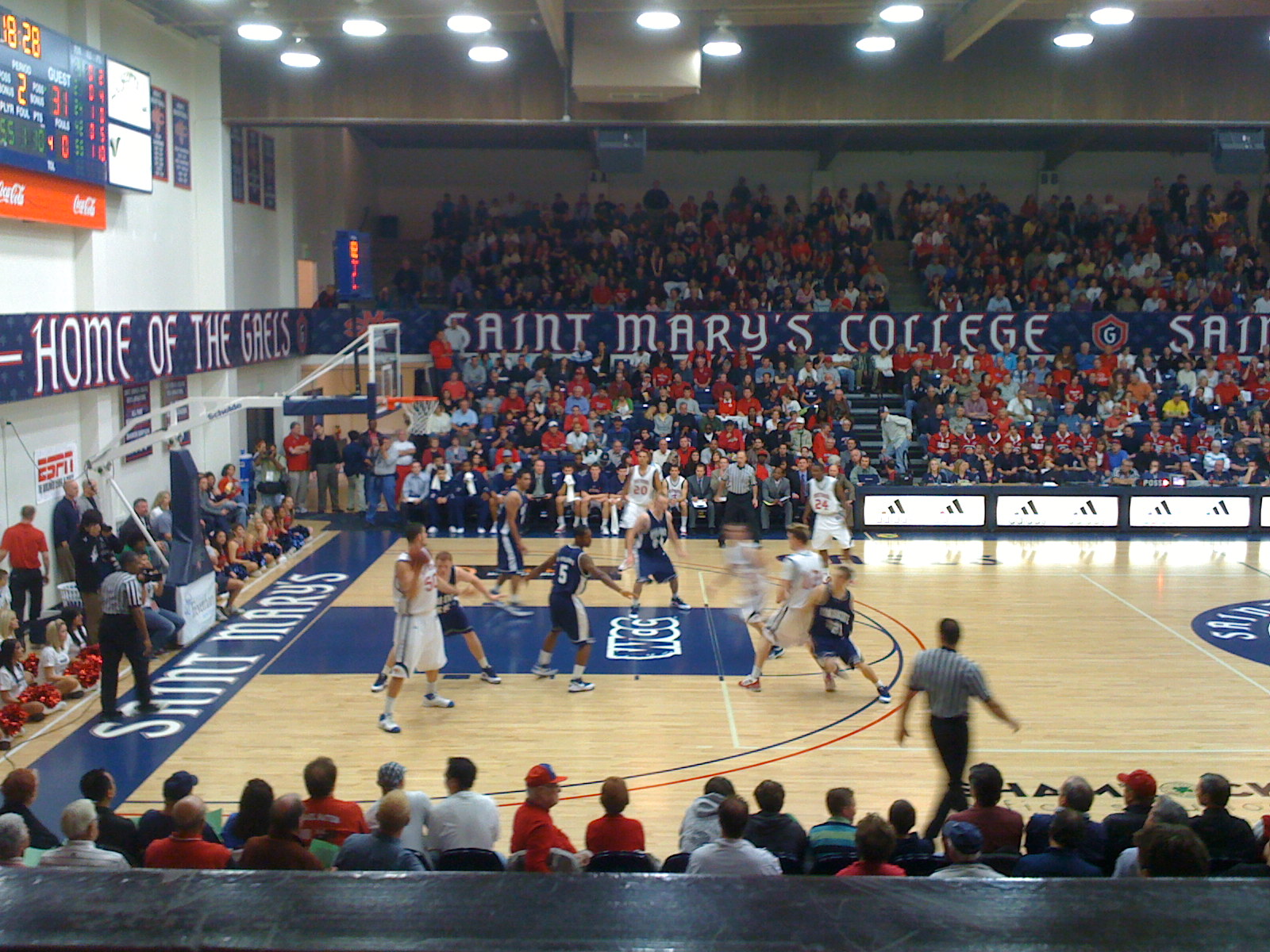 Saint Mary's College men's basketball team, during game against Utah State at McKeon Pavilion